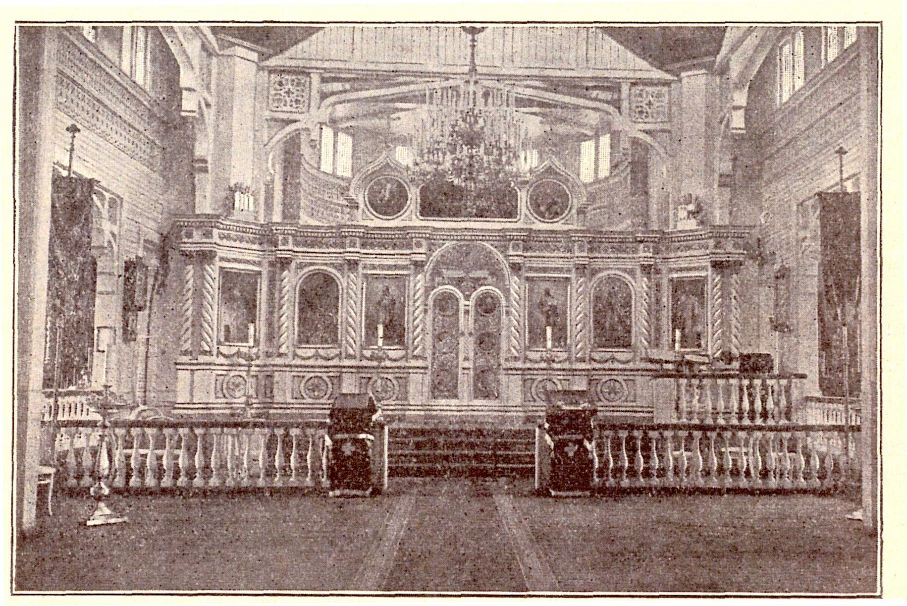 Lomonosov (Russia)